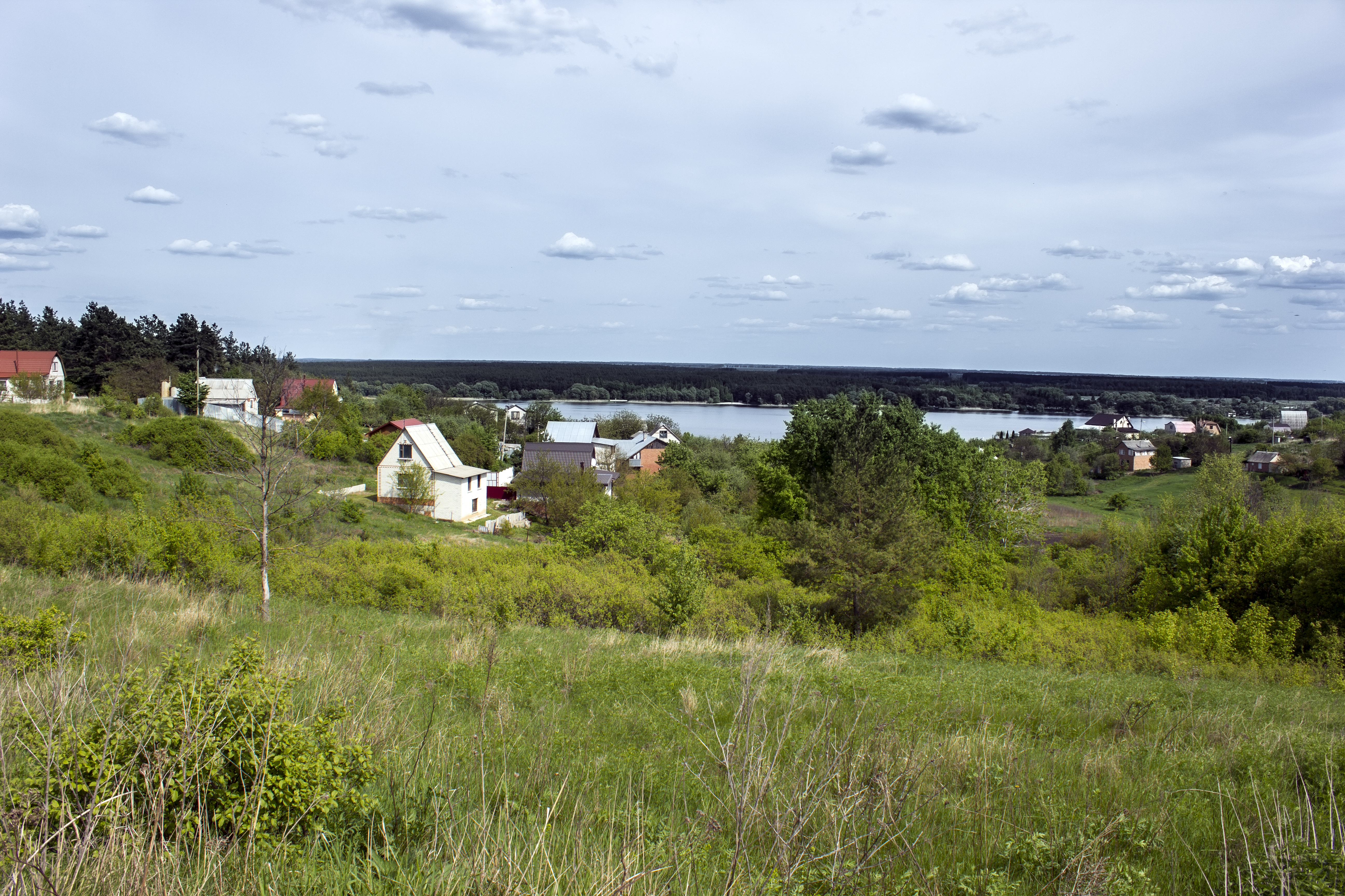 Verkhnii Saltiv Landscape (2)